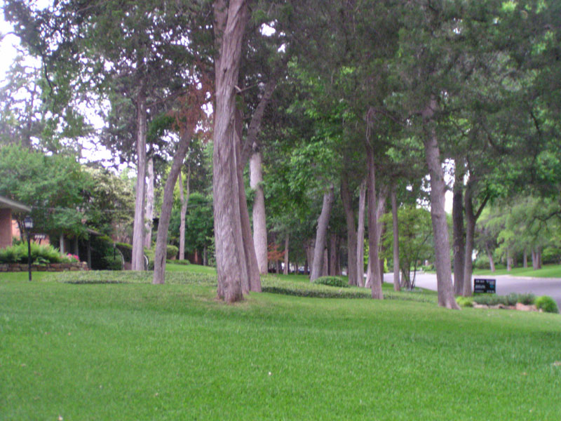 A common scene in the Kessler Heights neighborhood in the Oak Cliff area of Dallas, Texas (USA)